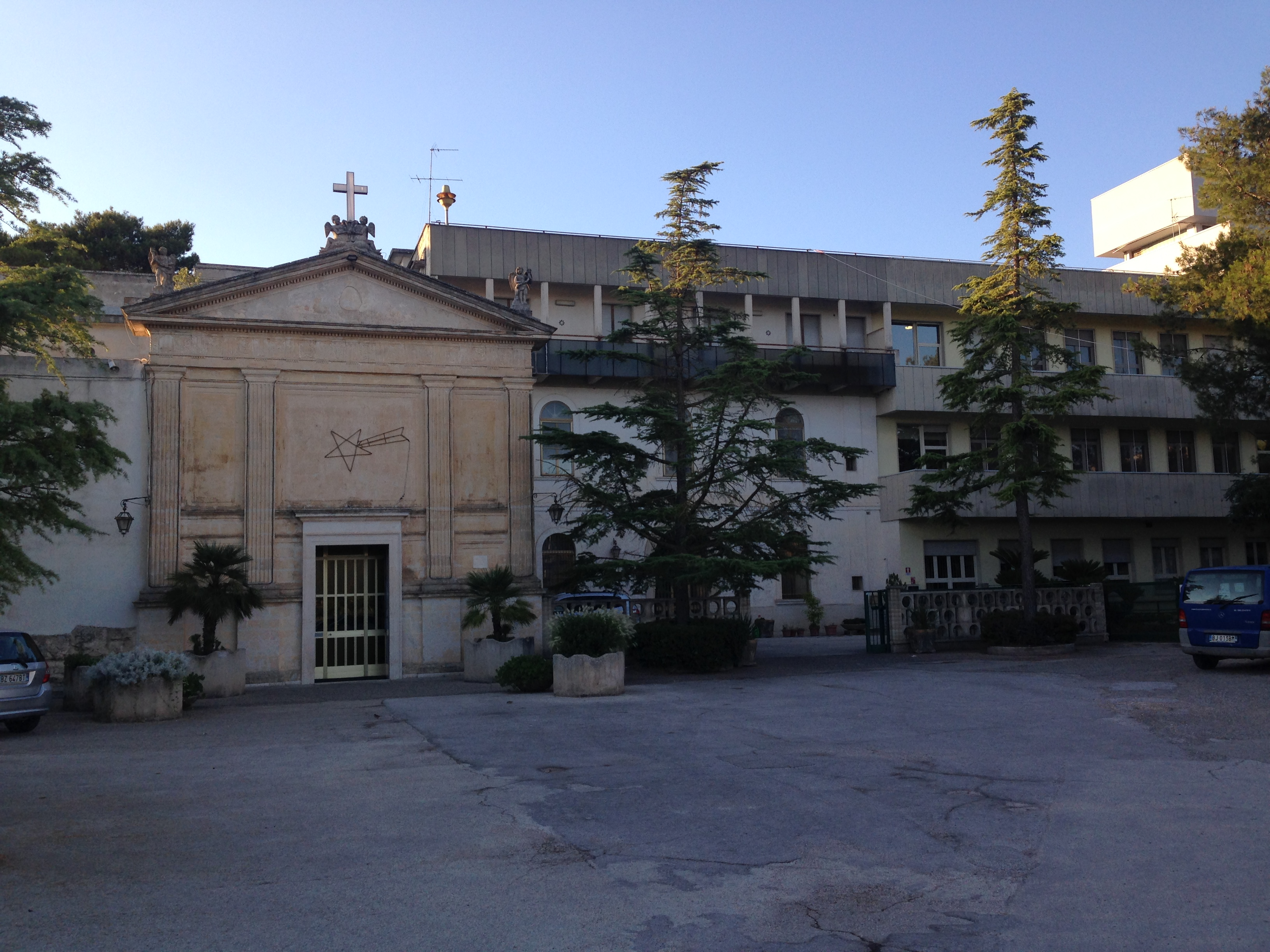 Sanctuary of Maria Santissima del Buoncammino, located in Altamura, Italy